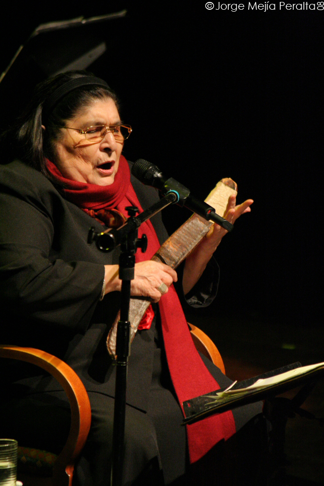 Mercedes Sosa. Teatro Nacional Rubén Darío. Managua, Nicaragua.